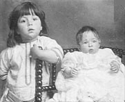 Photograph taken circa 1912/1913 of Millvina Dean and her brother, Bertram.